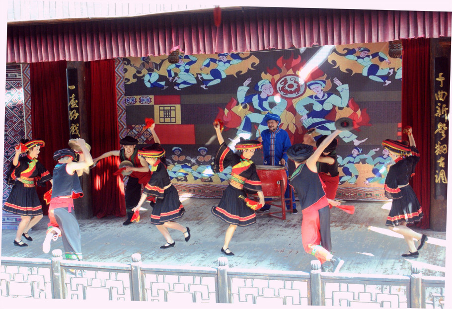 Rebuilt Bidjikan Palace of Jommi Kingdom in Enshi Bidjikan and Hmong Autonomous Prefecture